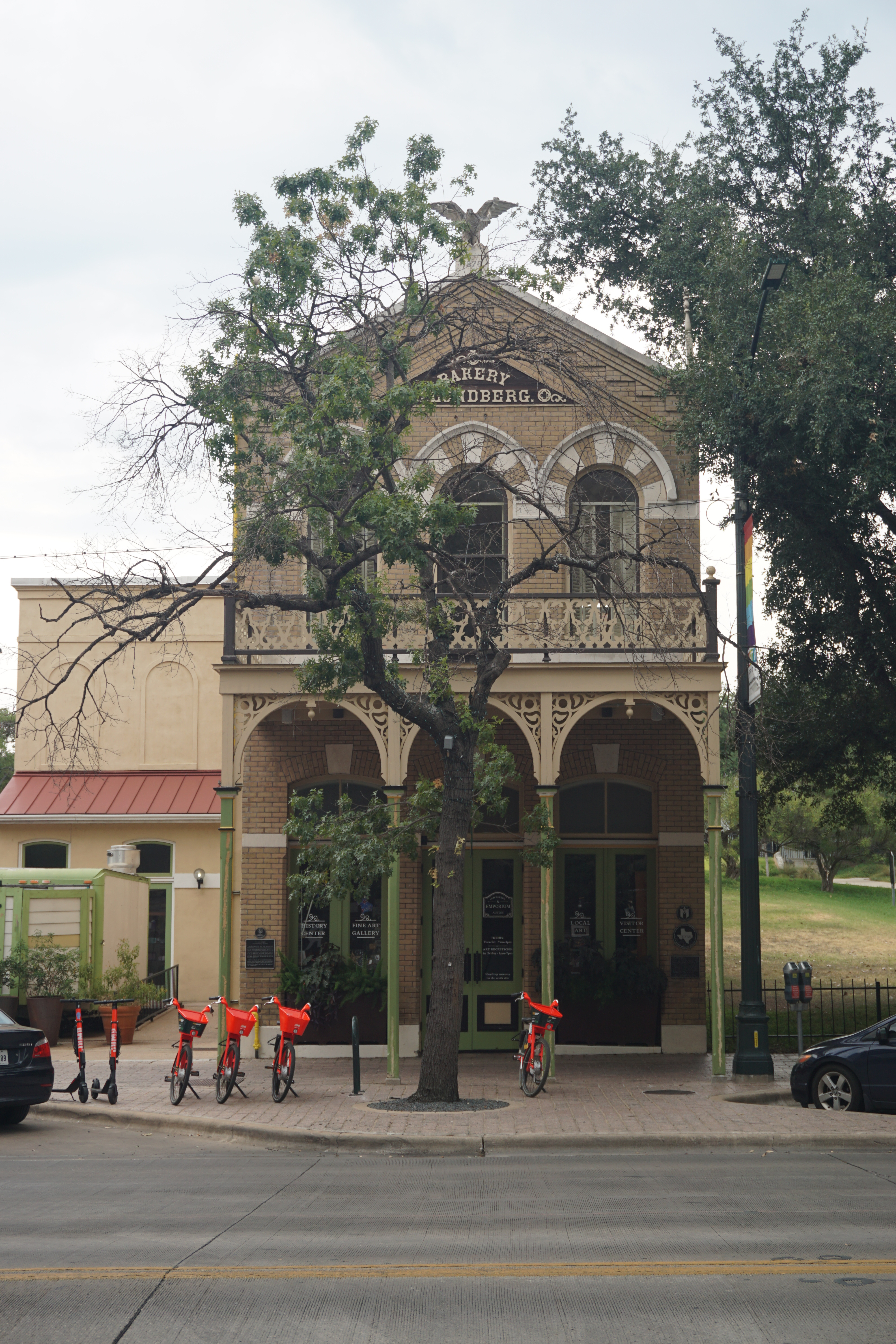 The Old Lundberg Bakery in Austin, Texas (United States).